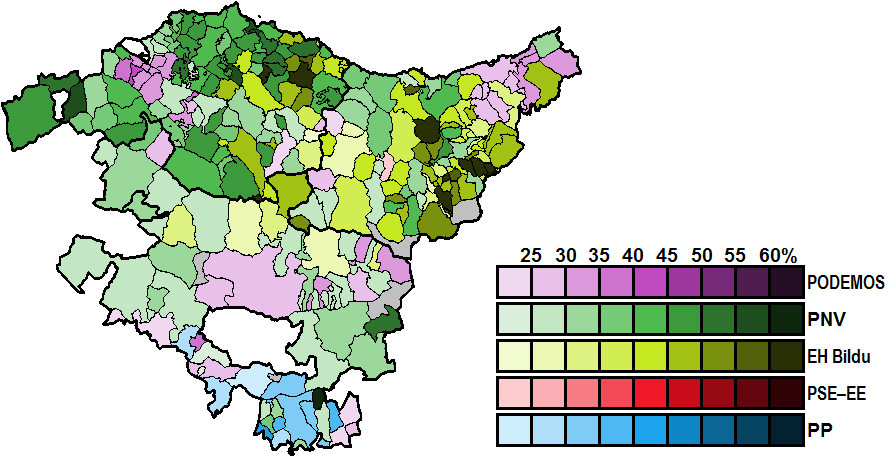 Most-voted party in Basque Country municipalities, showing vote share obtained, in the Spanish general election, 2015.